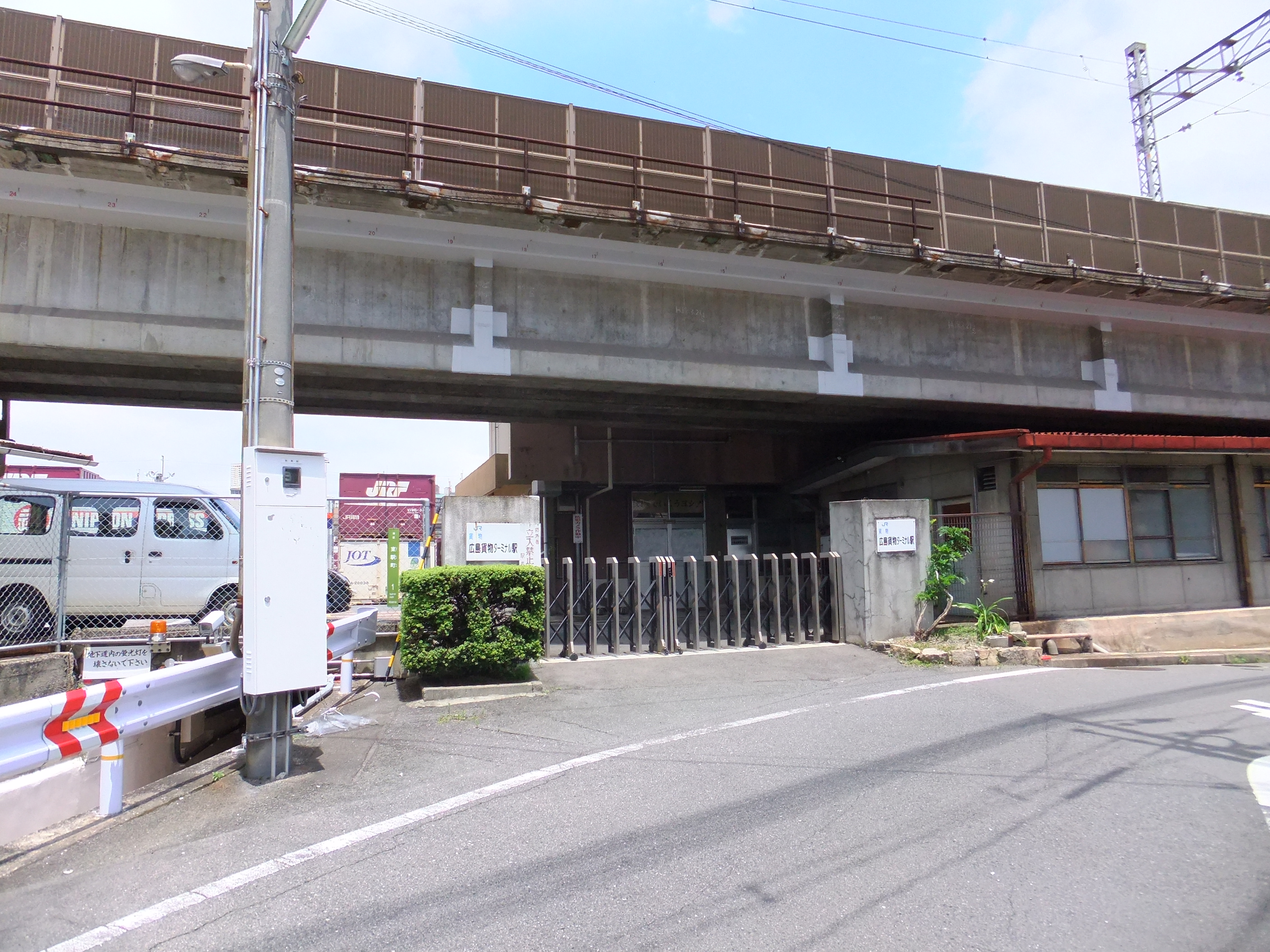 Hiroshima Freight Terminal